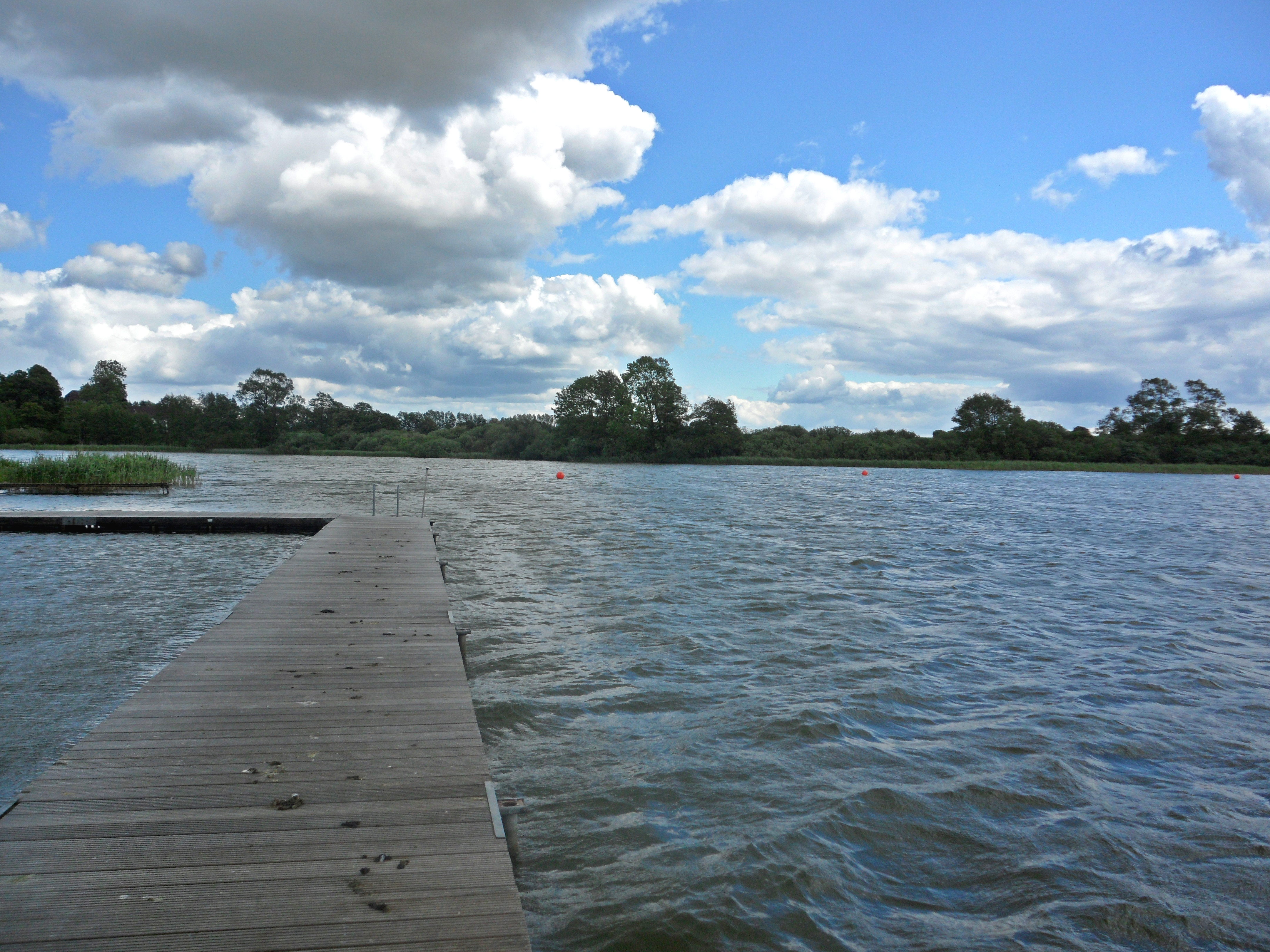 Bathplace in Sörup